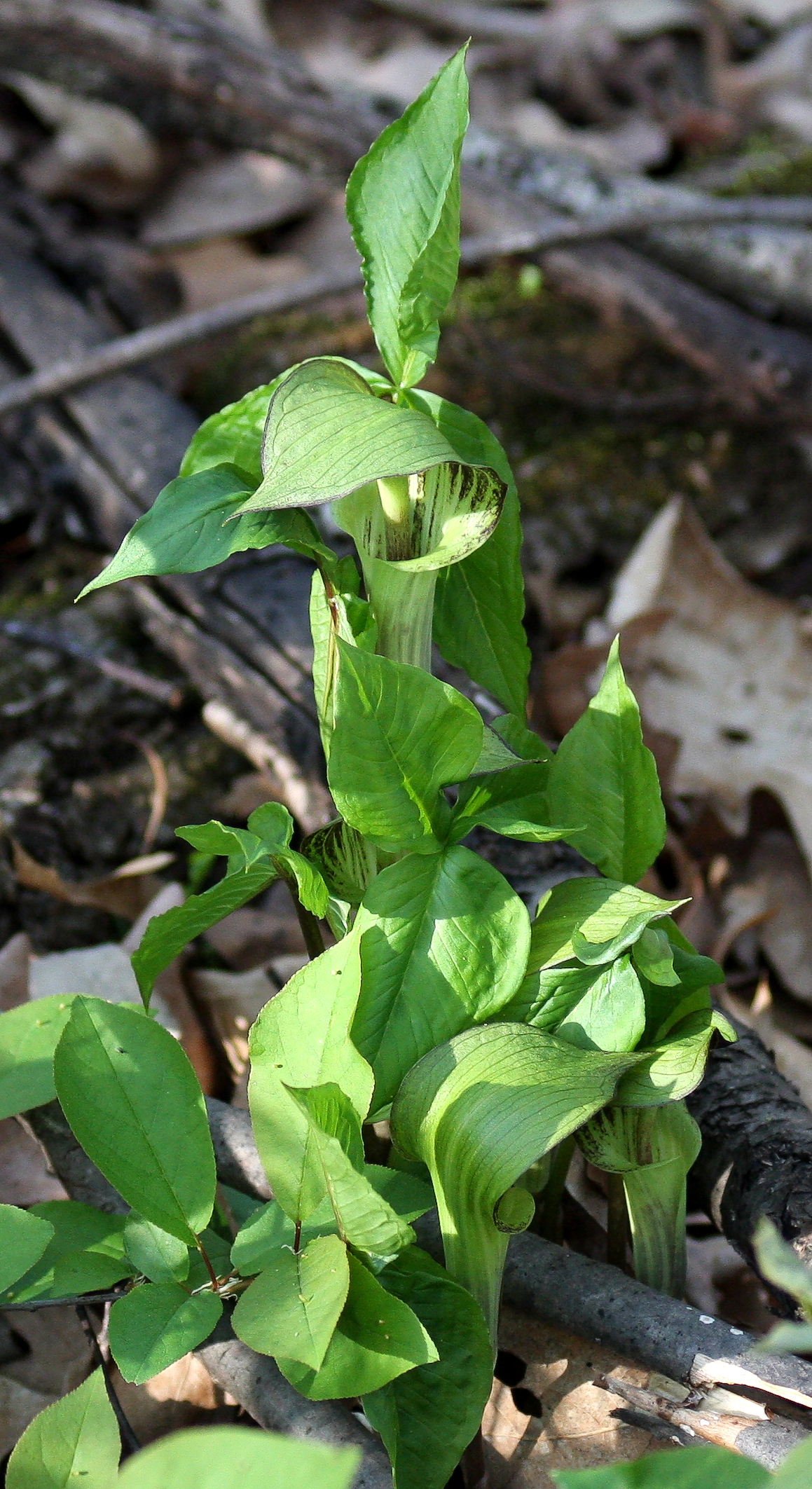 Self made image, taken in the spring of 2008, of a Jack-in-the-pulpit clump.